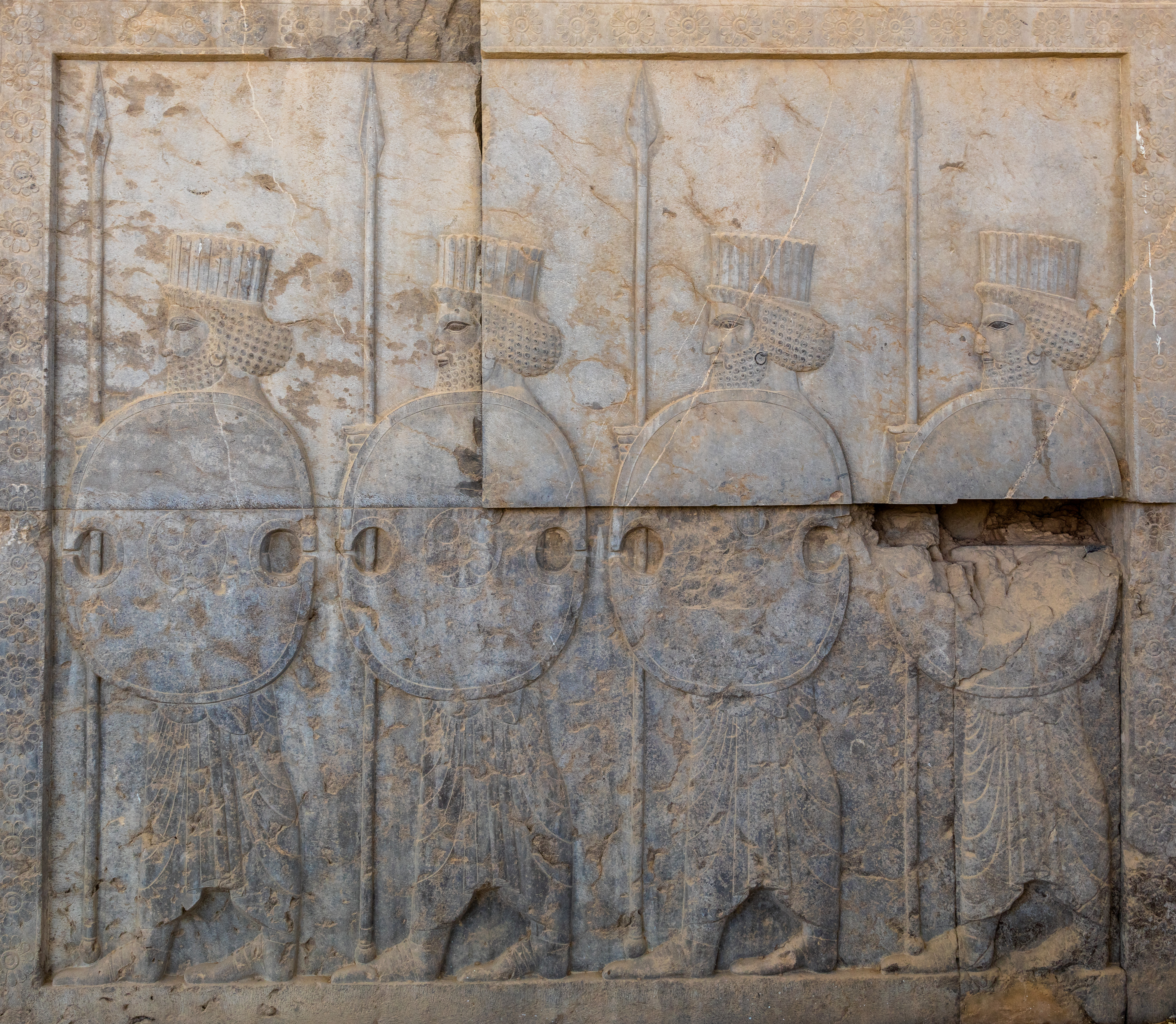 Persepolis, Iran